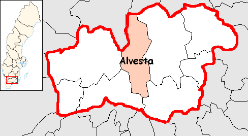 Alvesta Municipality in Kronoberg County Designd by me, based on Image:Kronoberg_Municipalities.png